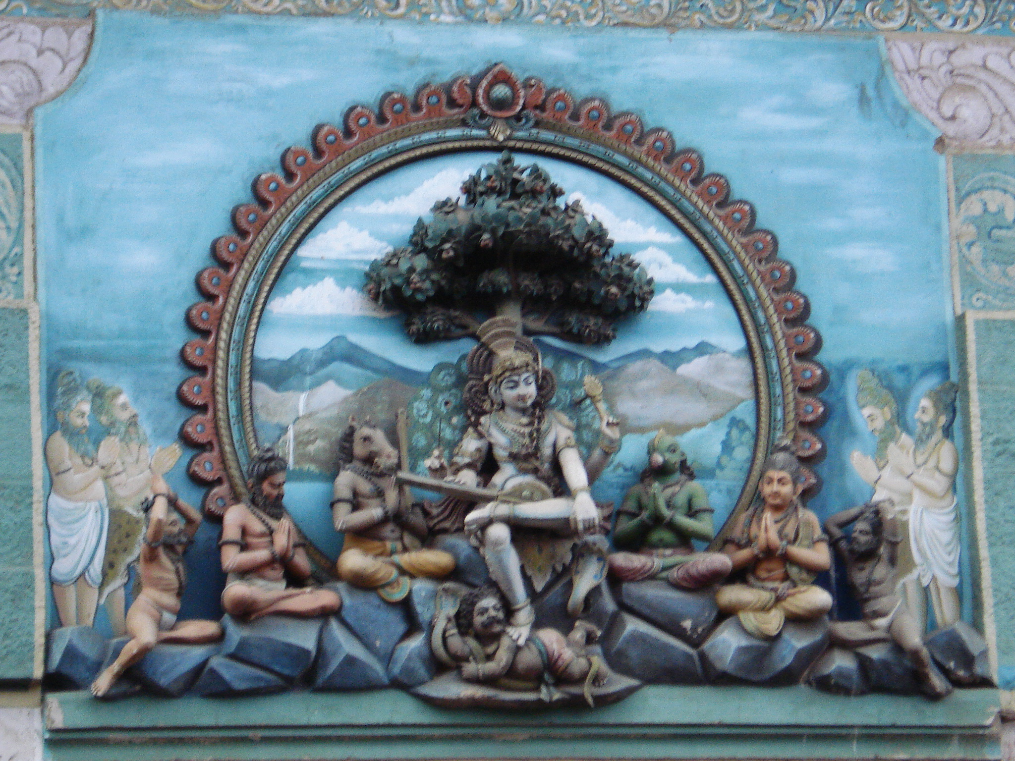 Deity of Lord Shiva at the Madurai Meenakshi Temple India.